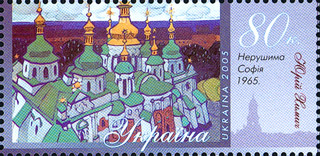 Stamp of Ukraine